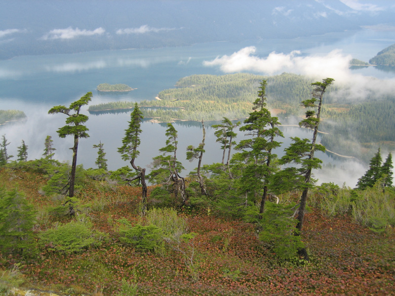 Prince William Sound, Alaska, with Tsuga mertensiana. Erin McKittrick, Ground Truth Trekking, own work